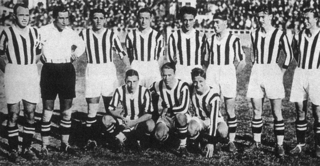 A line-up of F.B.C. Juventus in the 1930–31 season. From left to right, standing: G. Ferrari, G. Combi, G. Vecchina, U. Caligaris, F. Munerati, O. Barale (II), F. Rier, M. Varglien (I); crouched: R. Orsi, V. Rosetta, R. Cesarini.